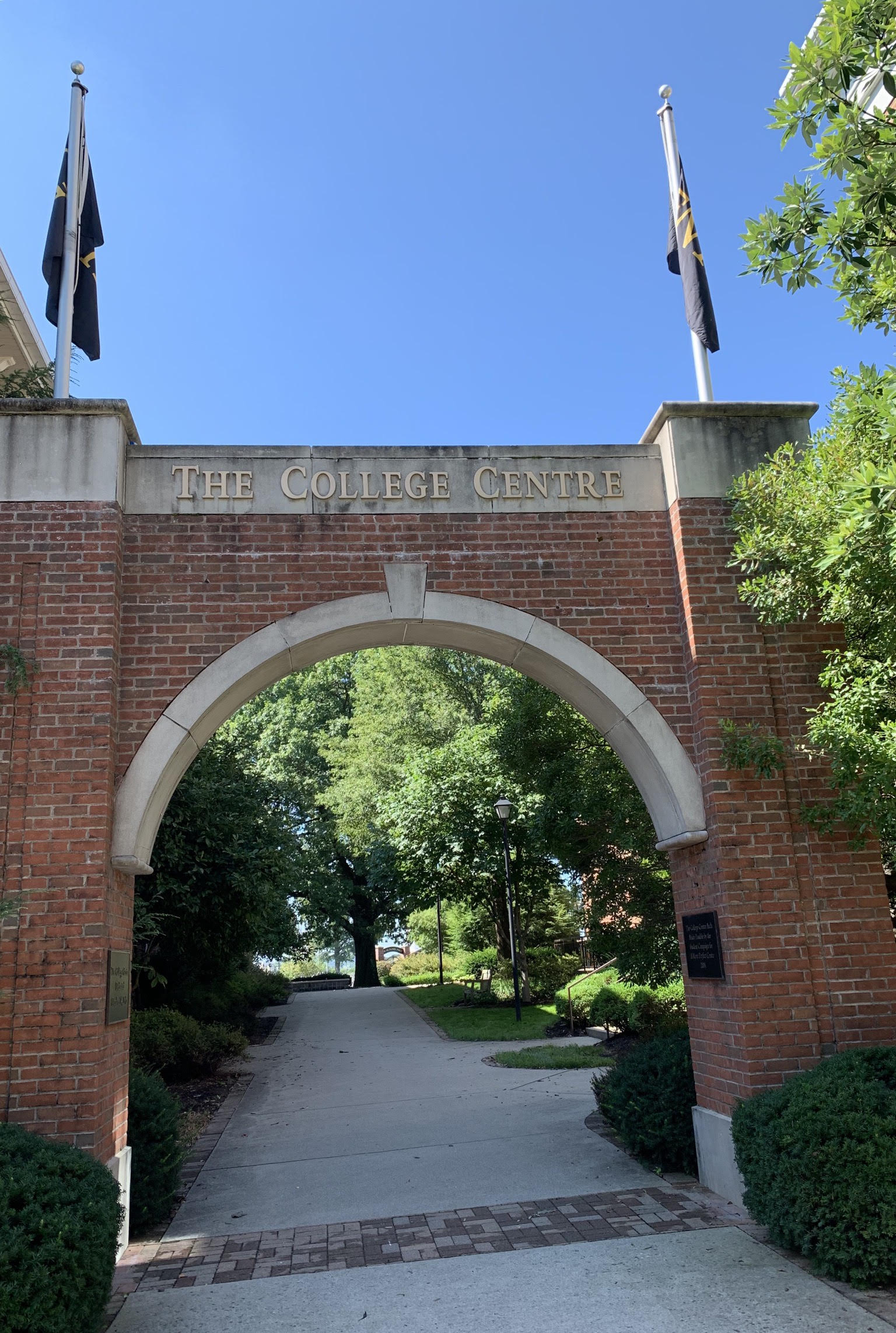 Archway leading into the College Centre, located at Centre College in Danville, Ky.